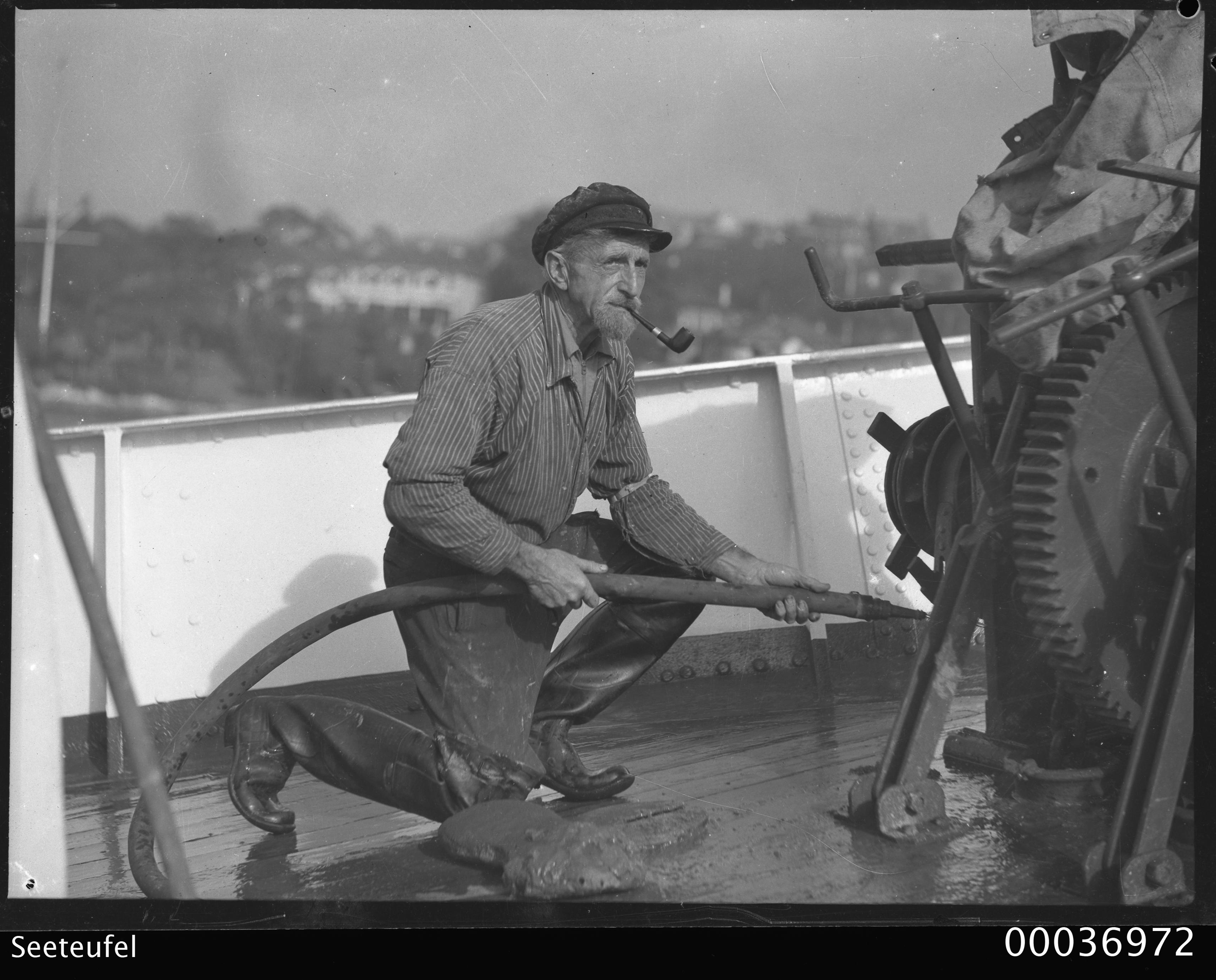 This photograph depicts the boatswain of SEETEUFEL, Karl Muller, smoking a pipe and hosing the vessel's deck, during Count Felix Graf von Luckner's visit to Sydney in May 1938. According to the secret files kept on the von Luckners by the Commonwealth Investigation Branch (CIB), Muller was: ‘afraid to go ashore because he cannot resist the city hotels and as he is 62 years of age cannot stand up to hard drinking.' These files are held within the National Archives of Australia. For more information on Count von Luckner's visit see our blog post 'Espionage and paranoia: The Sea Devil tours Australia'. This photo is part of the Australian National Maritime Museum’s Samuel J. Hood Studio collection. Sam Hood (1872-1953) was a Sydney photographer with a passion for ships. His 60-year career spanned the romantic age of sail and two world wars. The photos in the collection were taken mainly in Sydney and Newcastle during the first half of the 20th century. The ANMM undertakes research and accepts public comments that enhance the information we hold about images in our collection. This record has been updated accordingly. Photographer: Samuel J. Hood Studio Collection Object no. 00036972